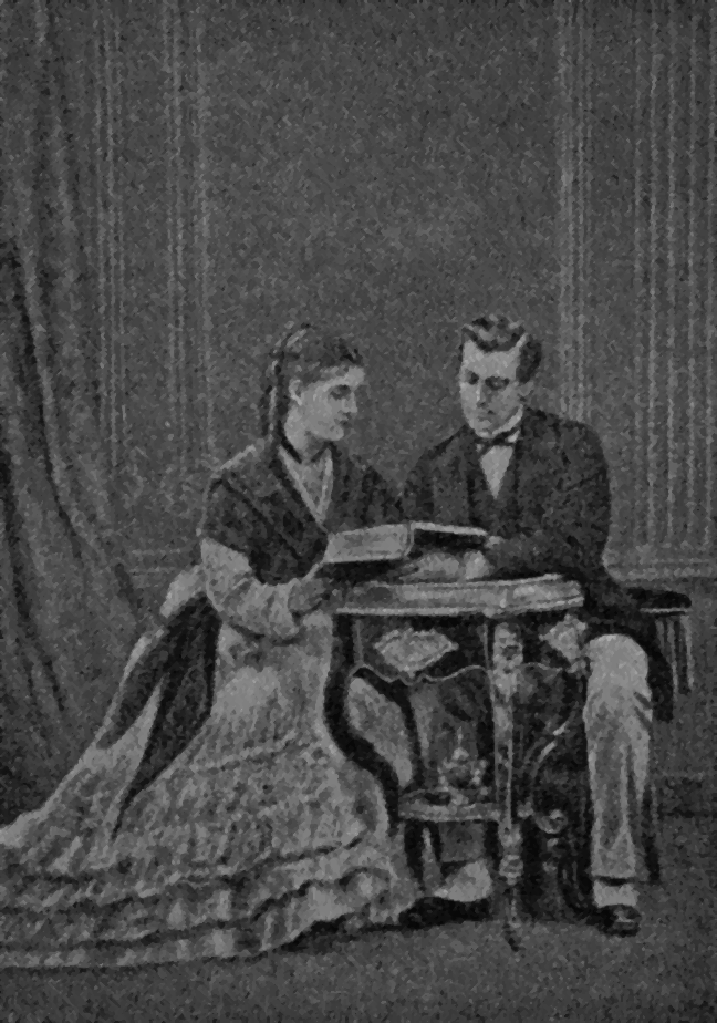 Mary Victoria Hamilton (*11. Dez. 1850, † 1922) daughter of the 11th Duke of Hamilton [left] and a Pricess of Baden, married to Prince Albert I of Monaco (*13. November 1848 in Paris) [right], whom she deserted after less than a year. Mother of Prince Louis II.